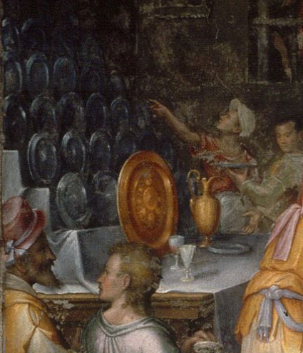 Fresco by Luca Longhi depicting the Wedding at Cana (details), 1580, Classense Library, Ravenna – Italy.